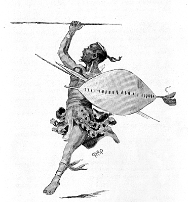 Sketch of Zulu warrior Public domain: CHAPTER VIII SOUTH AFRICA "A Zulu Warrior" Boy Scouts Beyond the Seas: “My World Tour” by Sir Robert Baden-Powell, K.C.B., London, 1913